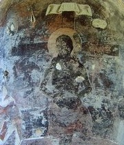 Saint Elijah Church in Mechkul Fresco